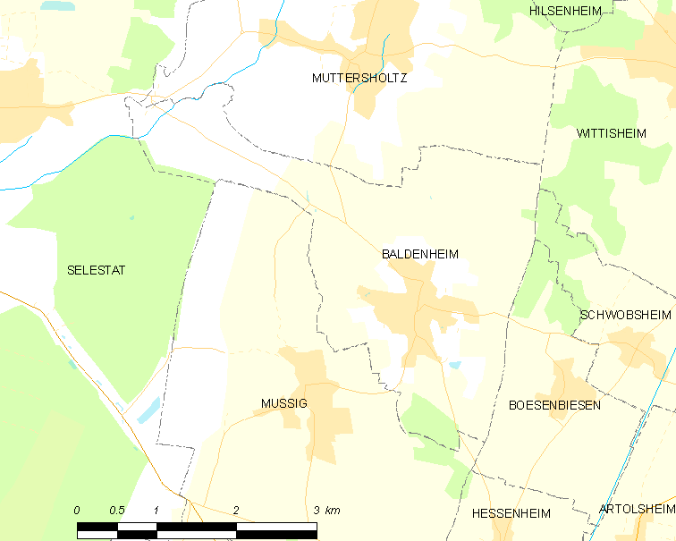 Map of French municipality